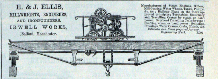 An 1870 newspaper advertisement showing a travelling crane by the H & J Ellis company